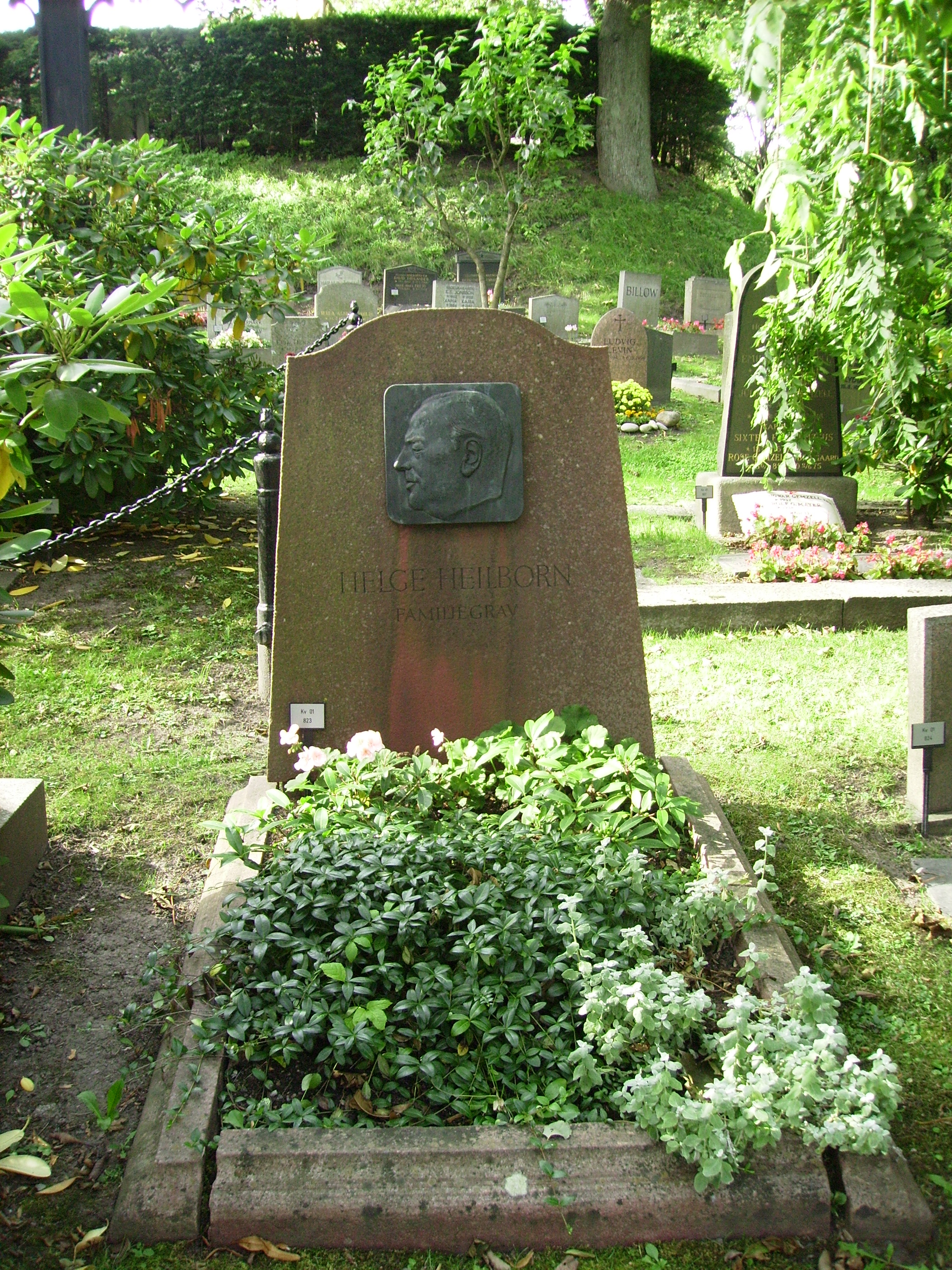 Picture of Helge Heilborn's grave at Galärvarvskyrkogården in Stockholm